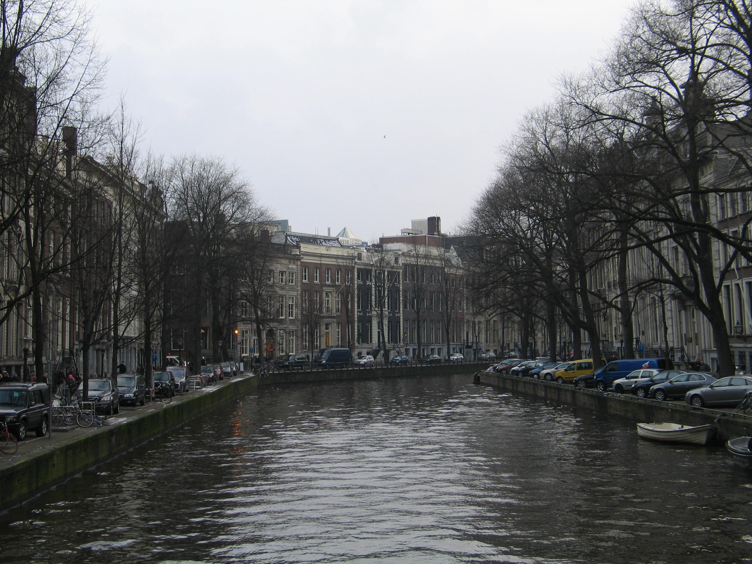 Canal houses on Herengracht, the so-called Golden Bend